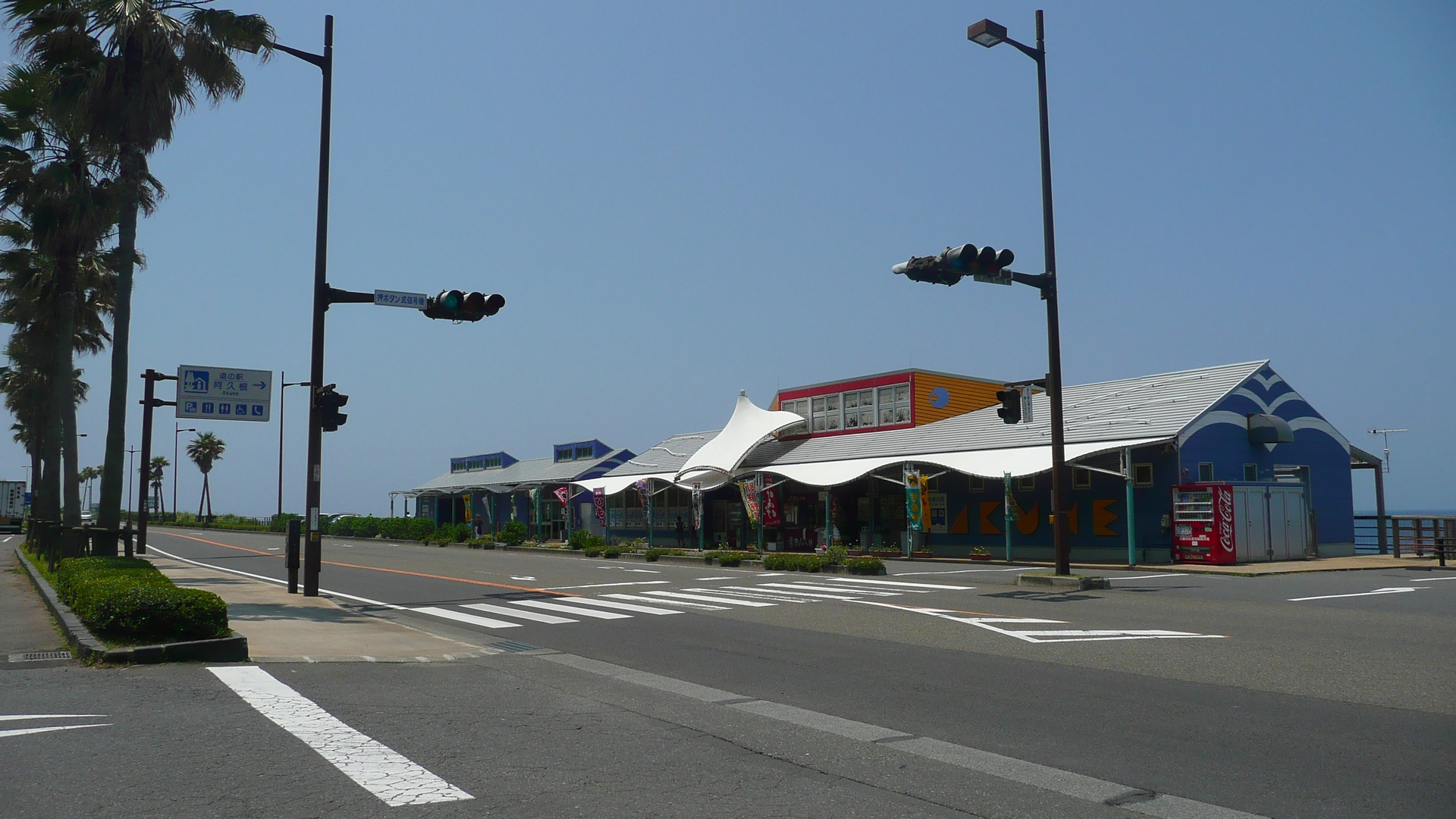 The Michinoeki Akune is located in Akune City, Kagoshima, Japan (National Route 3)